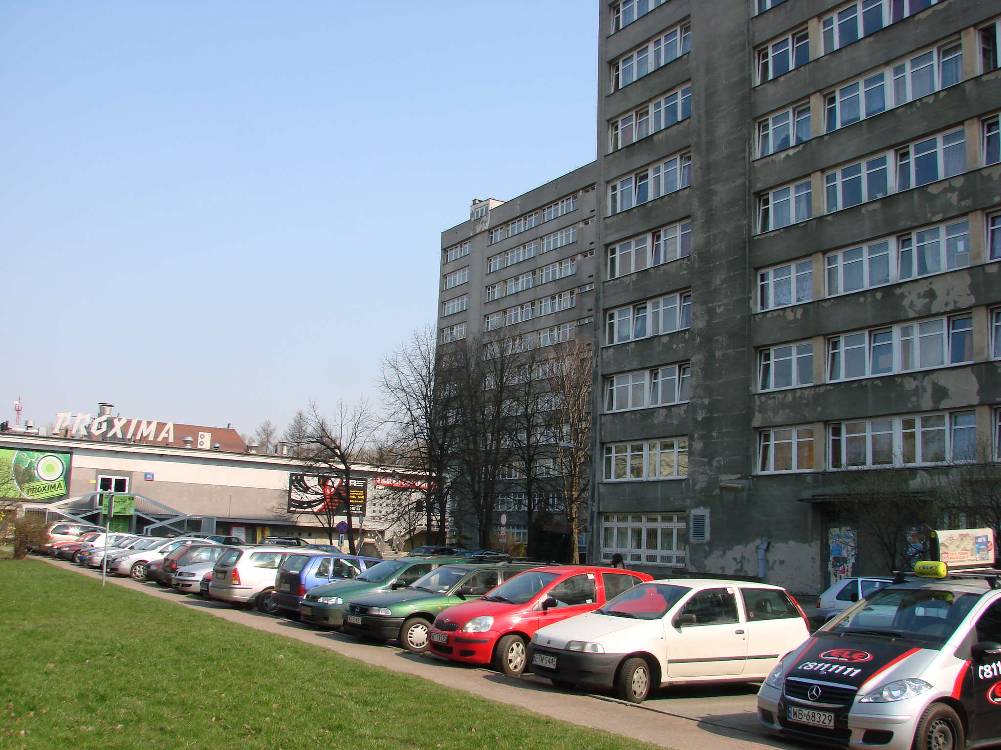 Dormitories of University of Warsaw and Proxima club, Warsaw